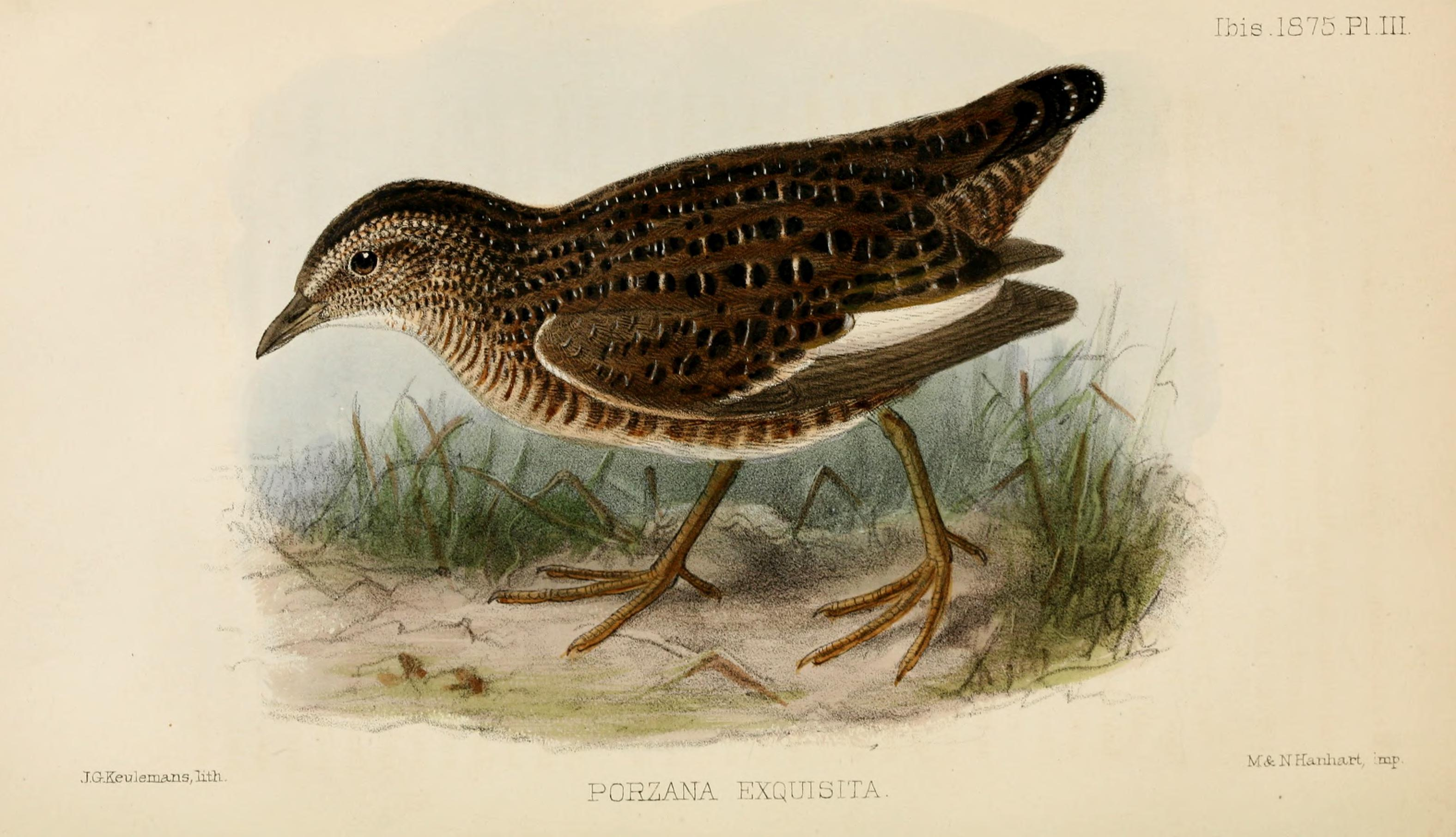 « Porzana exquisita » = Coturnicops exquisitus (Swinhoe's Rail)